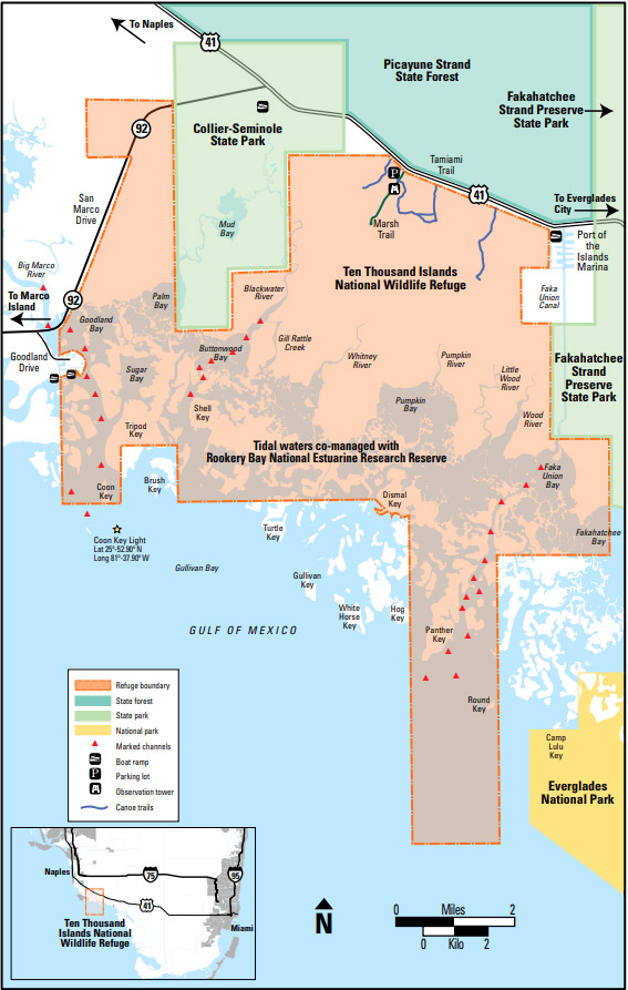 Ten Thousand Islands National Wildlife Refuge